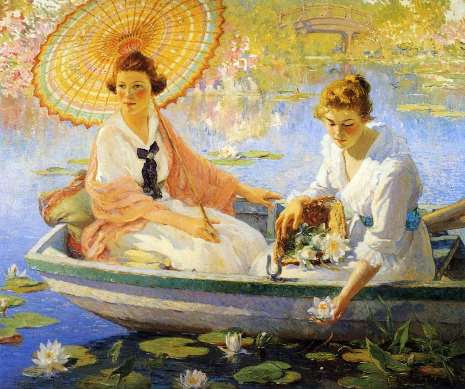 Summer, Colin Campbell Cooper, oil on canvas, 50 x 60.25 in